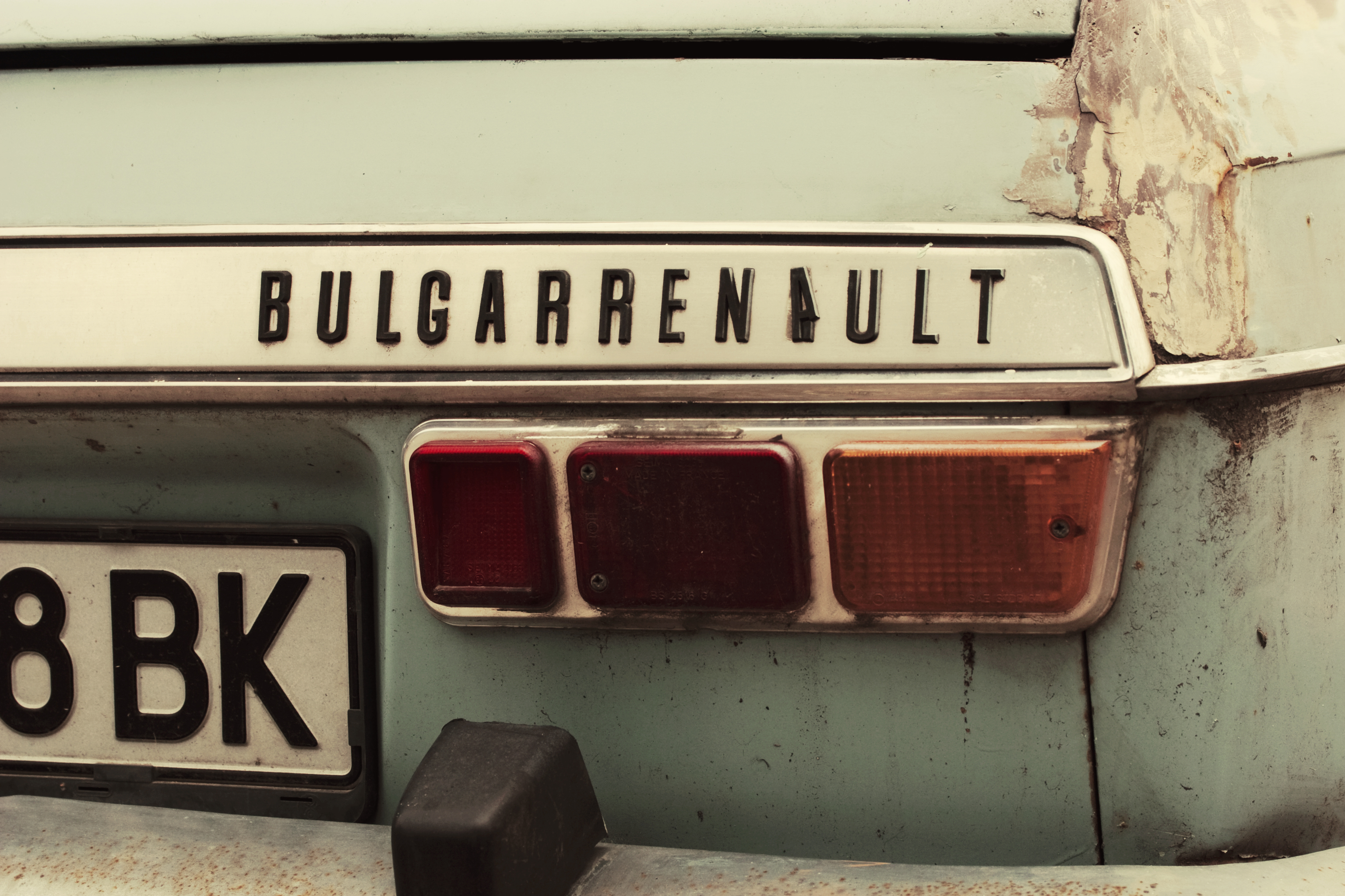 We were wondering if this was an actual brand / franchise or a very obvious counterfait... . (It would make for an awesome rat rod though)